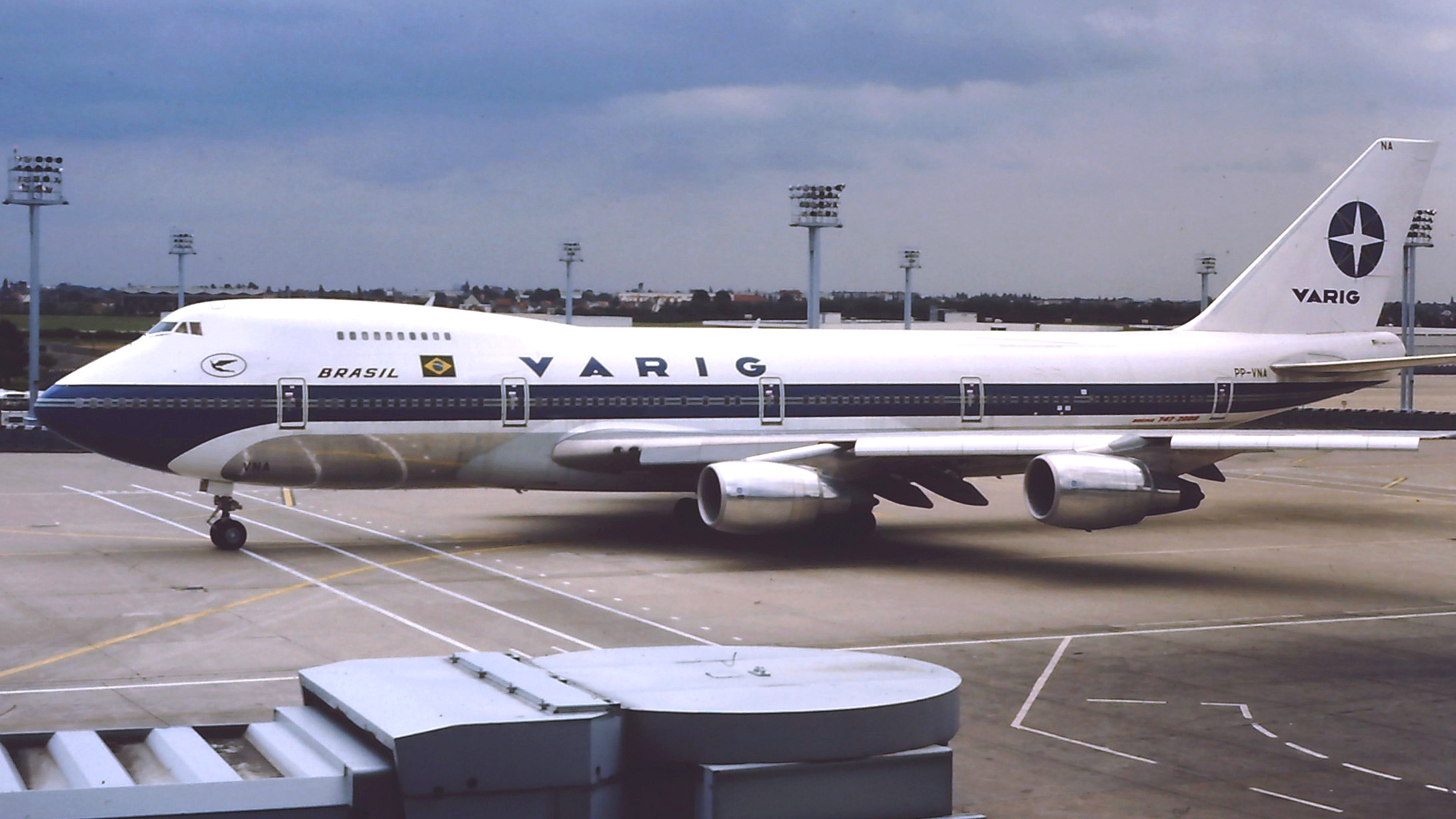 Boeing 747-2L5B registered PP-VNA of VARIG at Paris-Orly Airport (scan from slide)